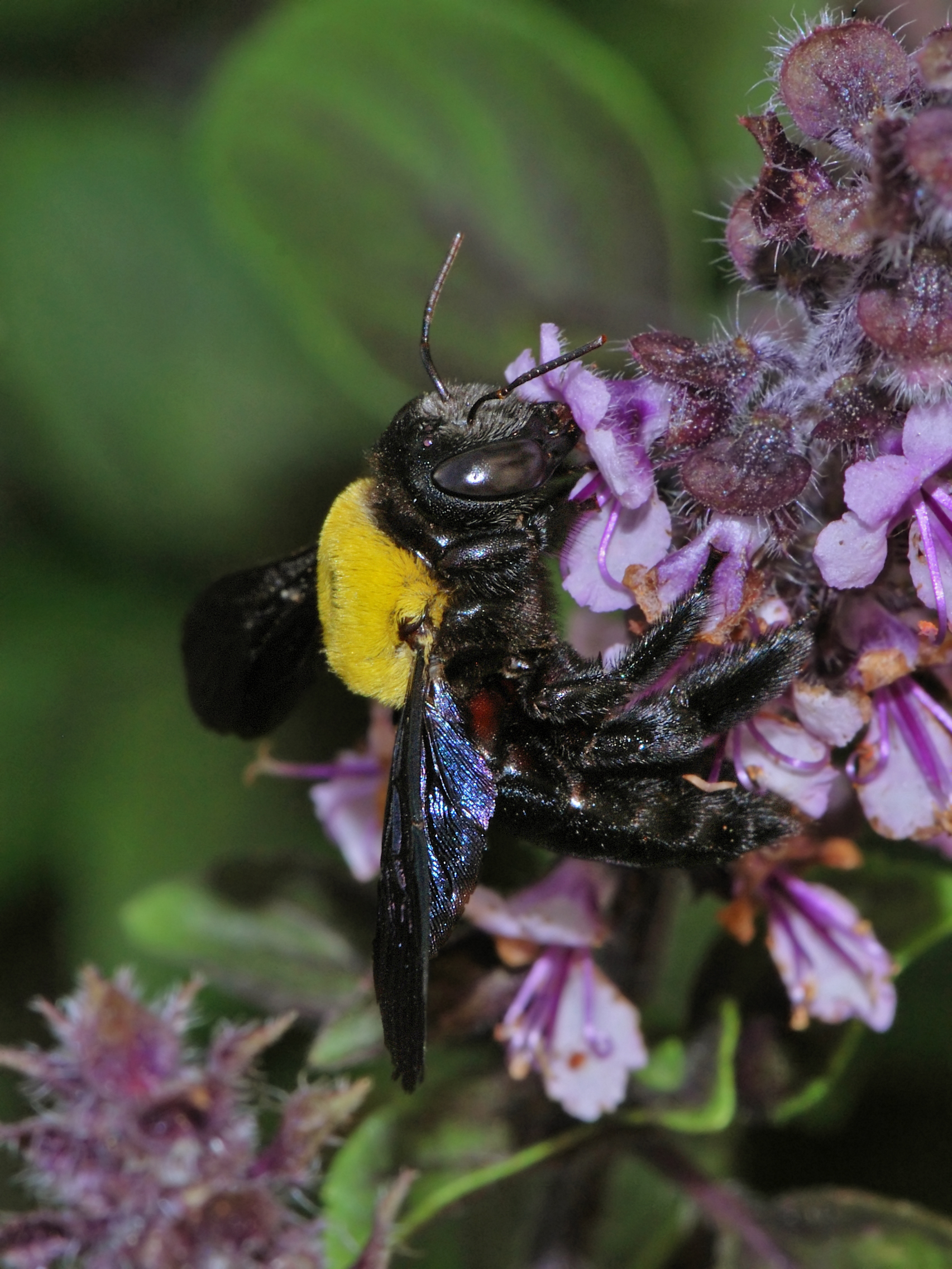 Female of Xylocopa pubescens foraging on basil, Tel Aviv, Israel, March 8, 2010.